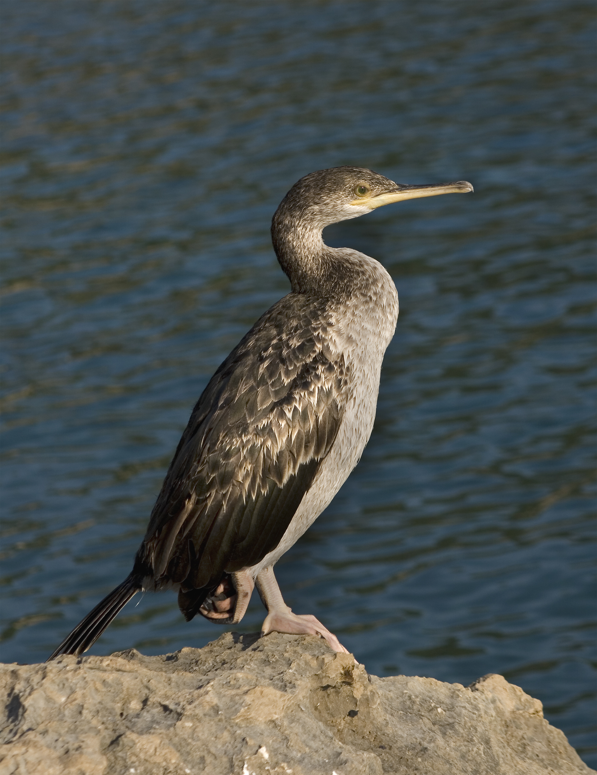 Young Common Shag (Phalacrocorax aristotelis desmarestii)